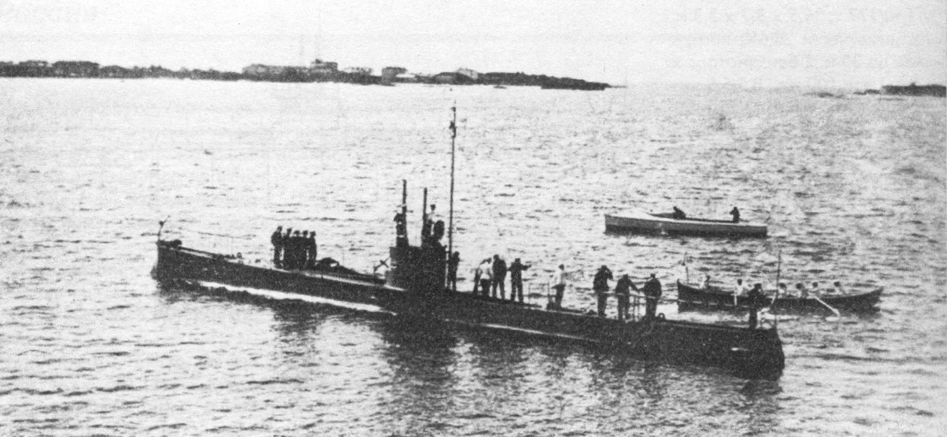 The Imperial Russian submarine «Minoga».